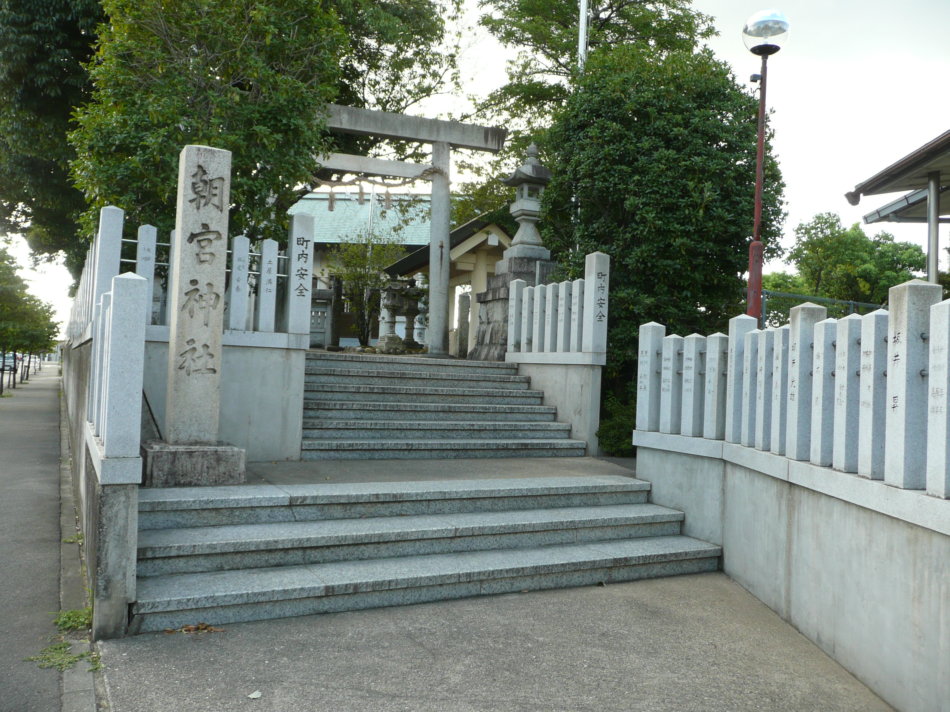 朝宮神社